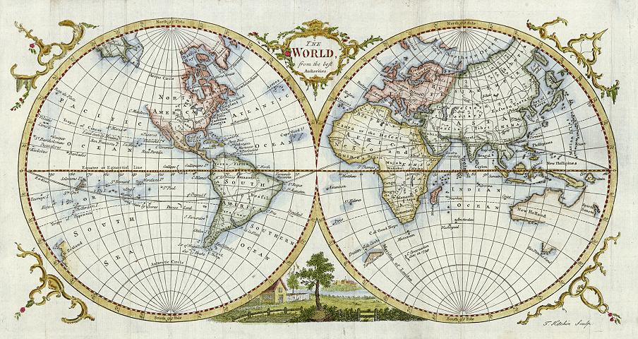 digital map of the world in hemispheres by thomas kitchin" The World From the Best Authorities " engraved by Thomas Kitchin, published in Guthrie's New Geographical Grammar, 1777. The original is a copper engraved map and the hand colouring is recent. Click here for detail showing part of the map at full resolution (600 dpi). Click the small image to the left for a larger low resolution version. (Ref sm0004). Digital image 27mb at 600dpi.